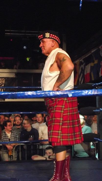 Drew McDonald at an Insane Championship Wrestling show (July 1st, 2012)